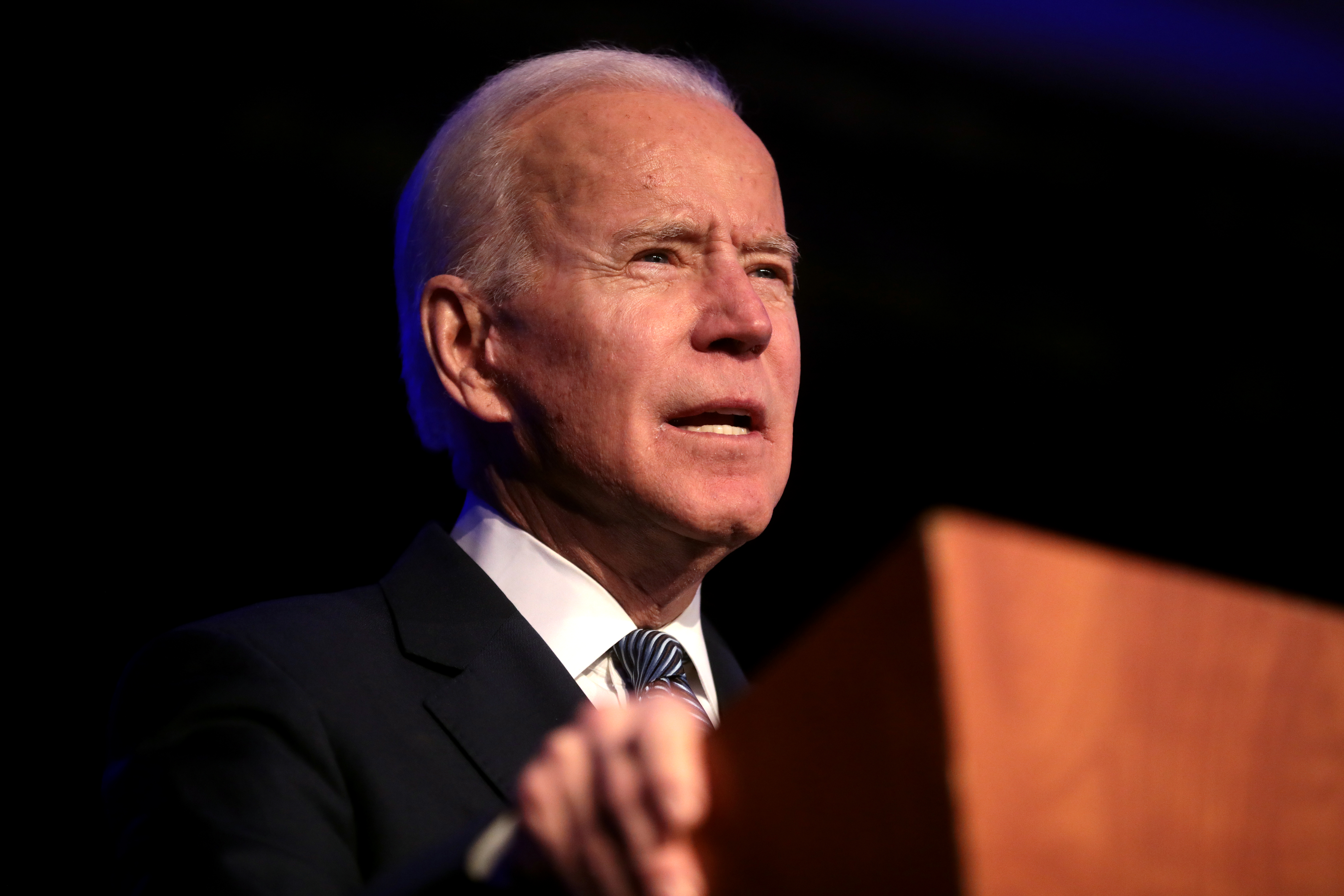 Former Vice President of the United States Joe Biden speaking with attendees at the Clark County Democratic Party's 2020 Kick Off to Caucus Gala at the Tropicana Las Vegas in Las Vegas, Nevada.